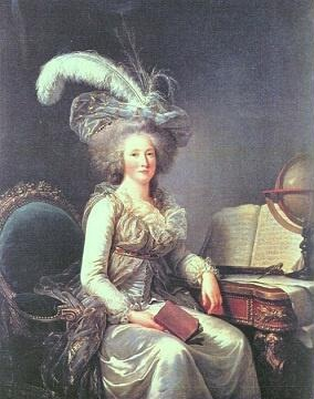 Depicted person: Élisabeth Philippine Marie Hélène de France (1764–1794), known as Madame Élisabeth, sister of Louis XVI